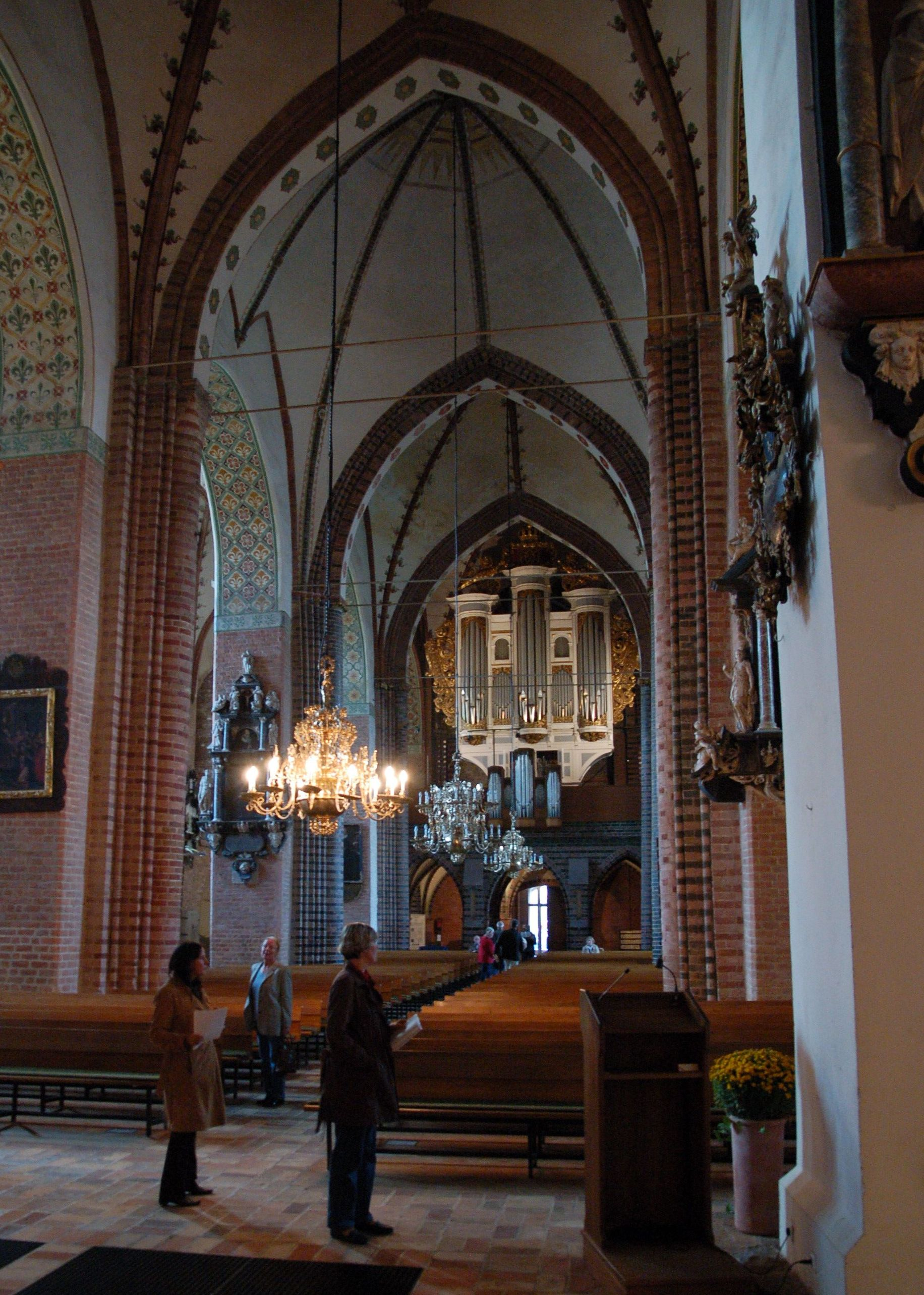 Schleswig Cathedral, Germany